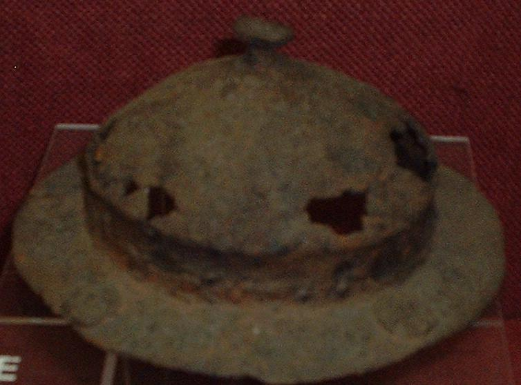 Saxon shield boss from Ham Hill. Photograph was taken in the Somerset County Museum in Taunton on 29-Oct-05.